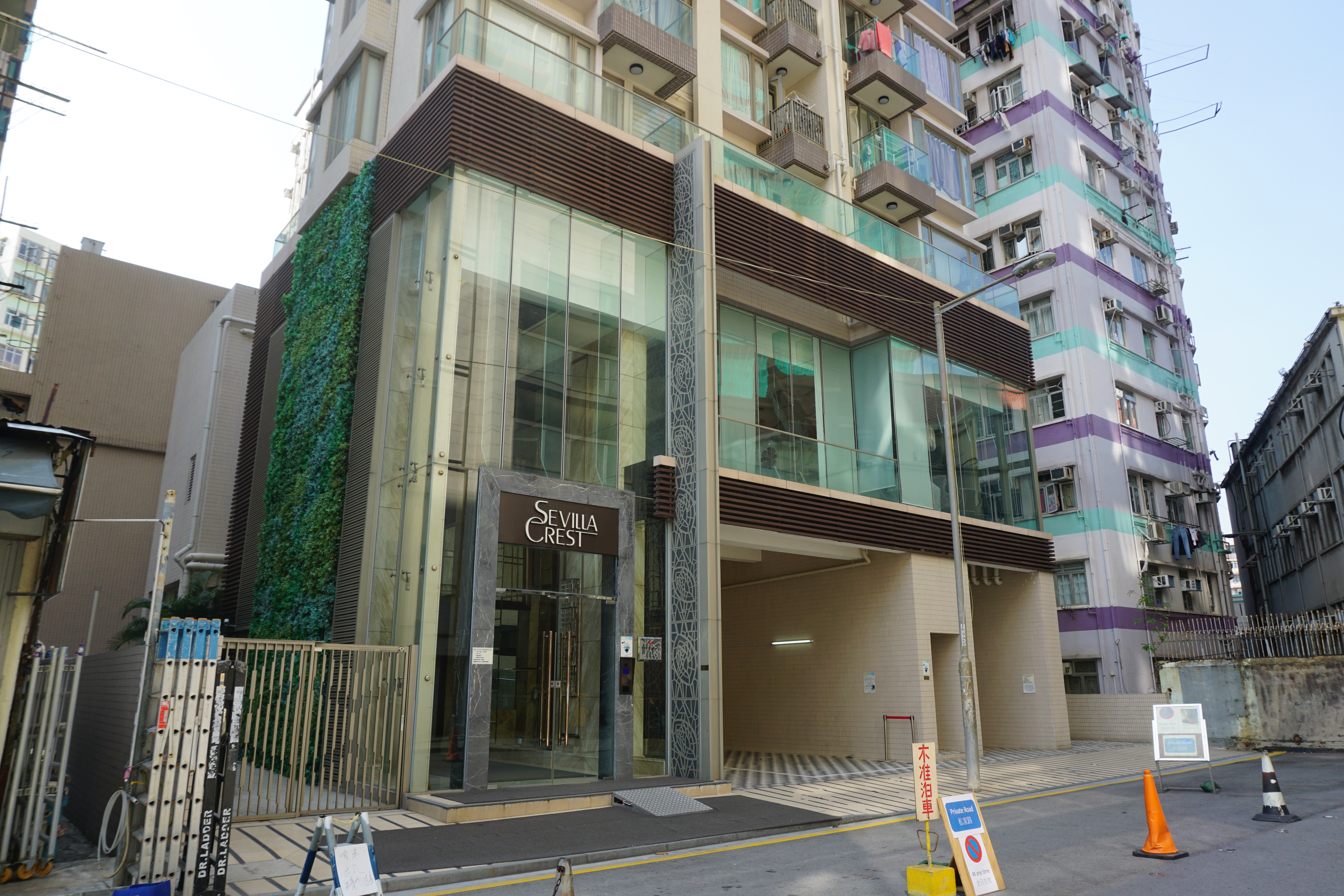 Sevilla Crest in Sham Shui Po, Hong Kong.